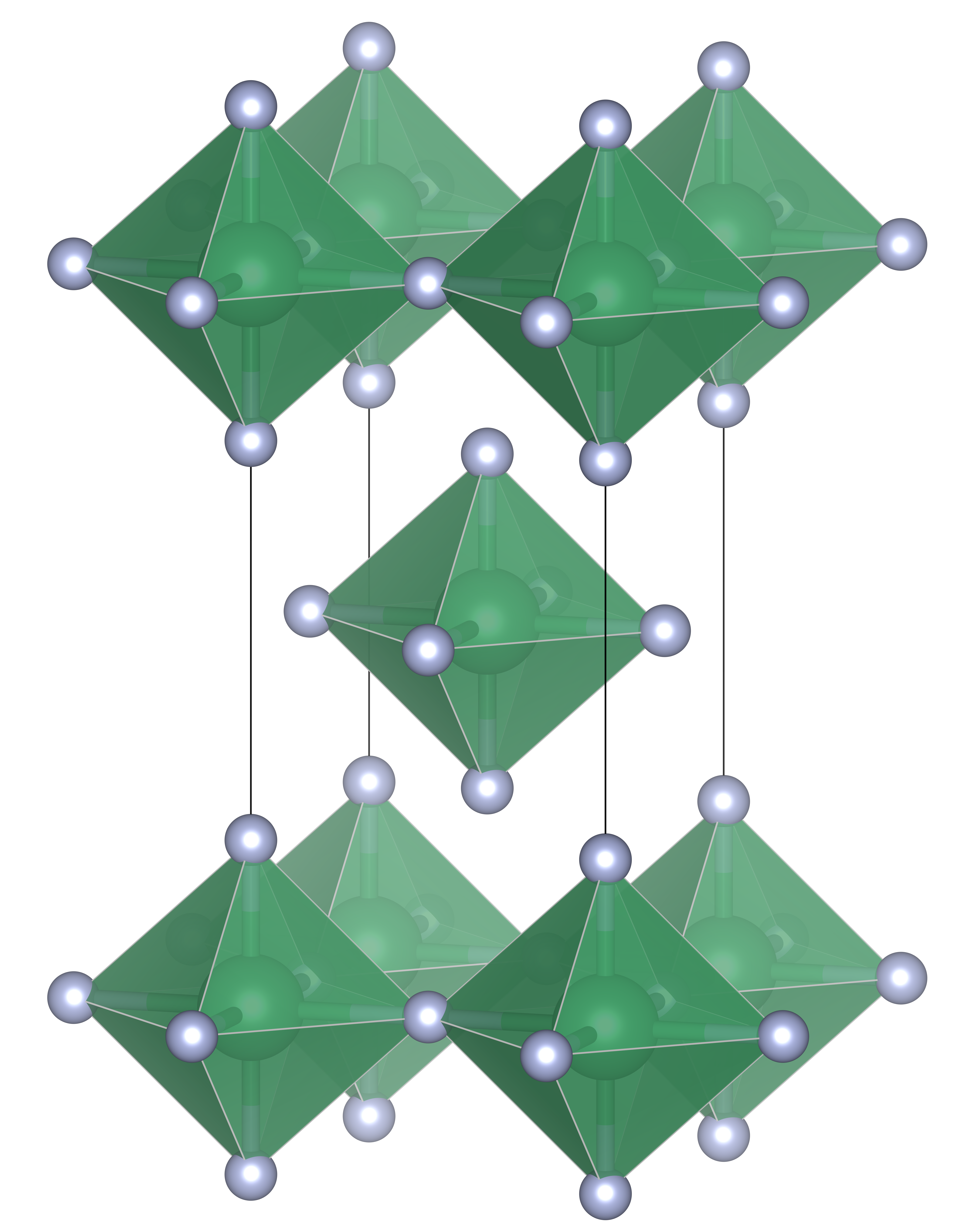 Unit cell of niobium tetrafluoride (NbF4). Created with VESTA. Source of crystal structure: The structure is isotypic to the SnF4 type.